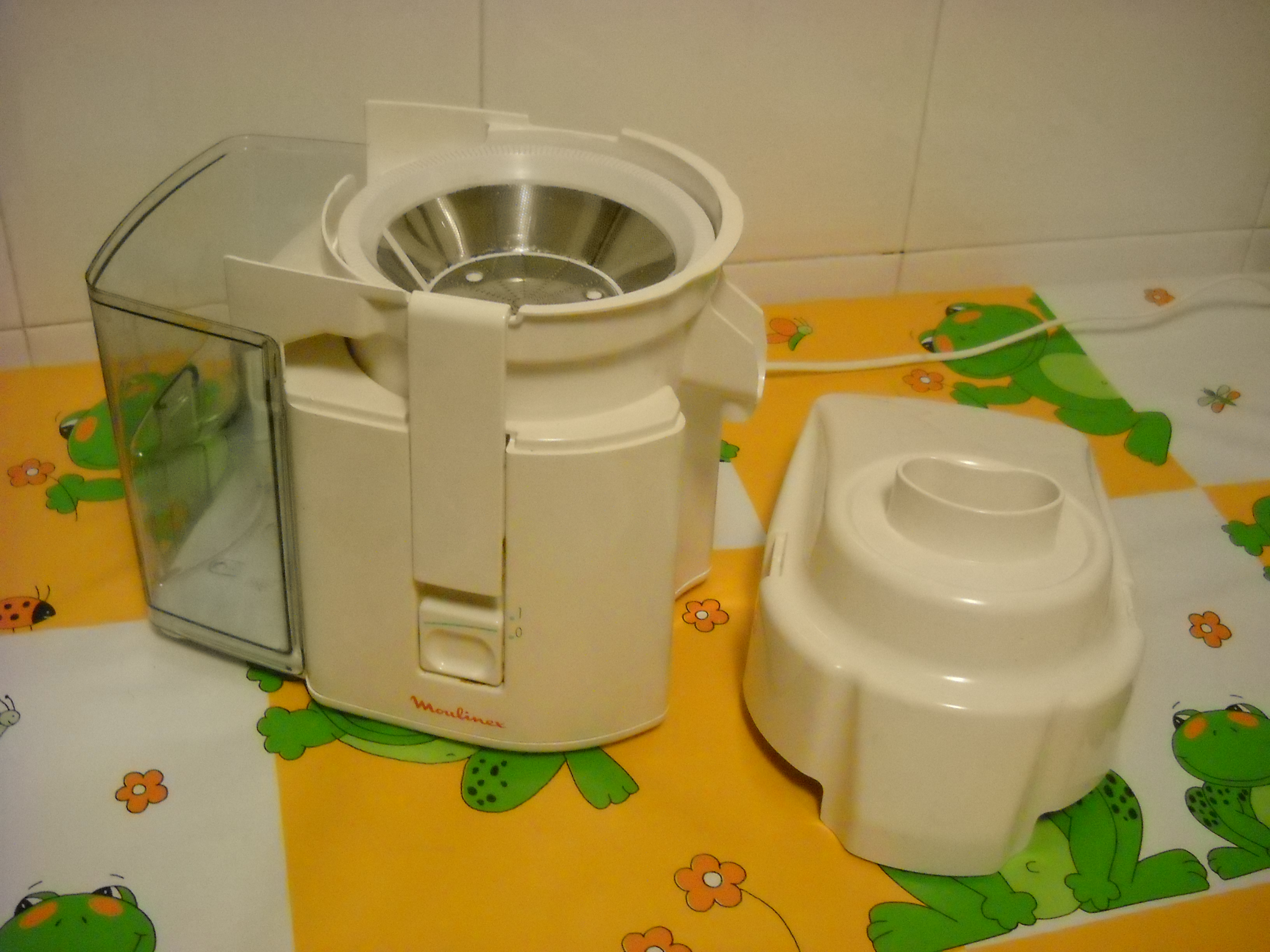 Centrifugal juice extractor by Moulinex